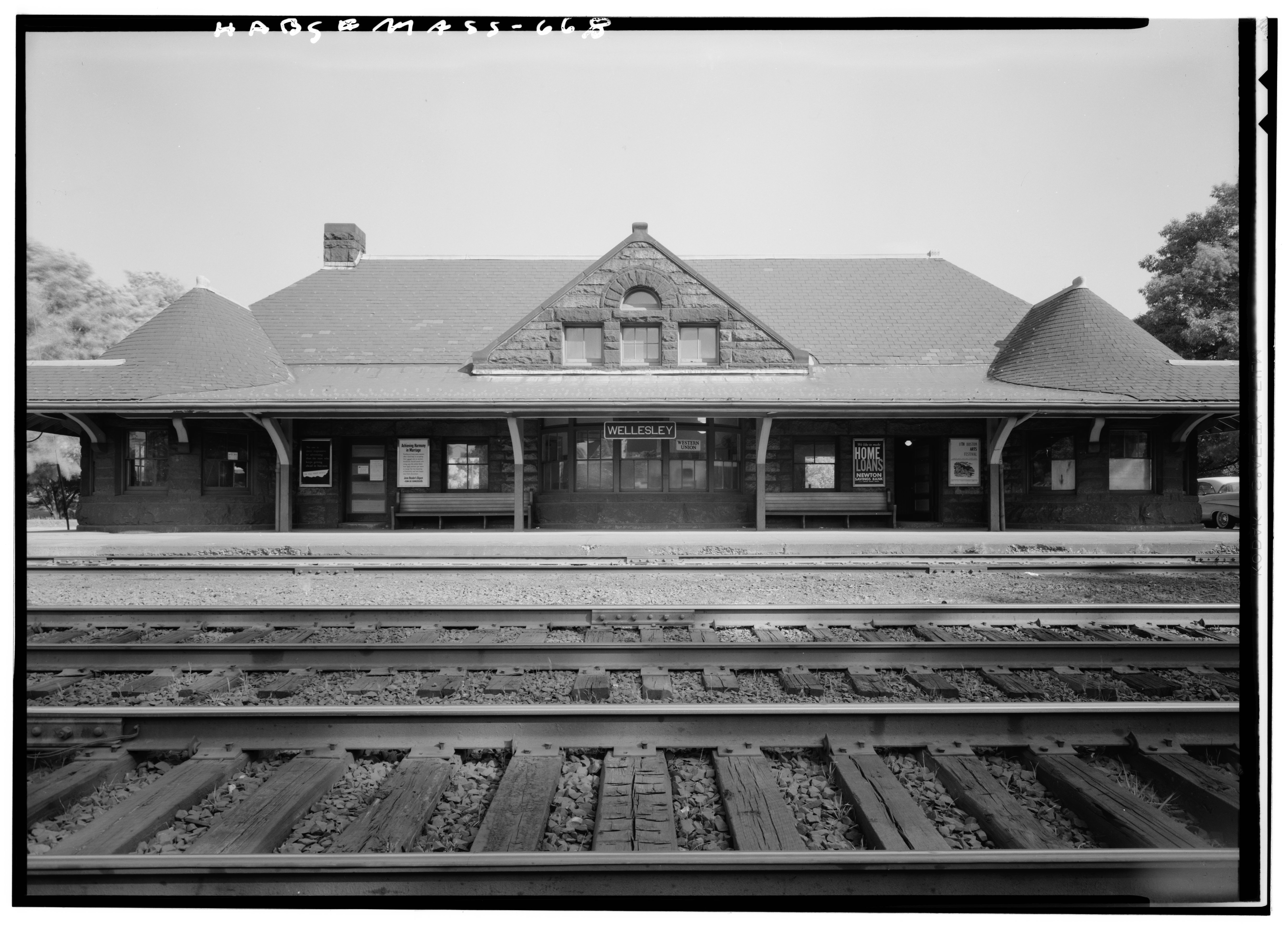 Wellesley Train Station, Boston & Albany Railroad, Wellesley, Massachusetts. Commissioned in 1884, opened in 1889